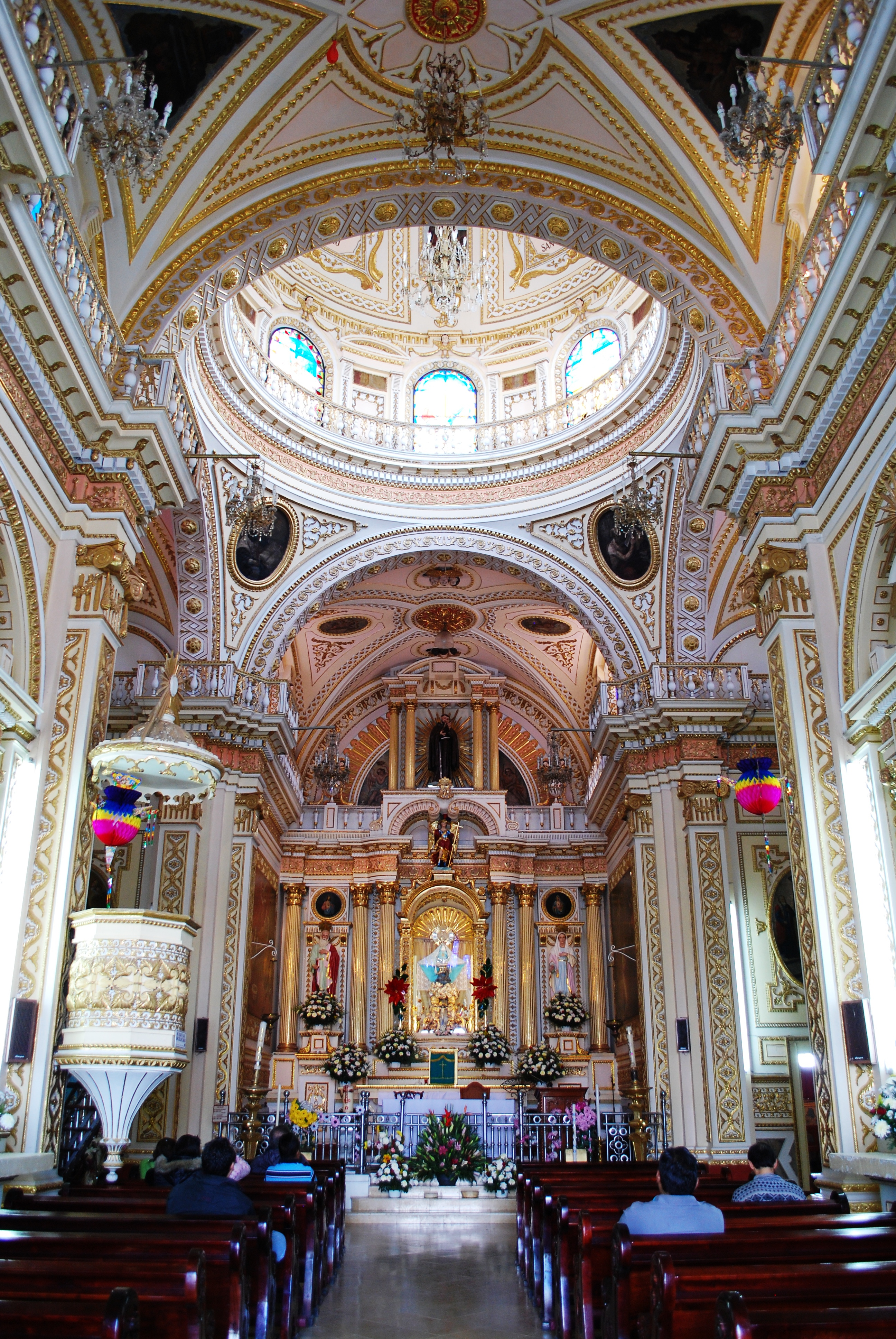 Near the main altar of the Nuestra Señora de los Remedios church in Cholula, Puebla, Mexico